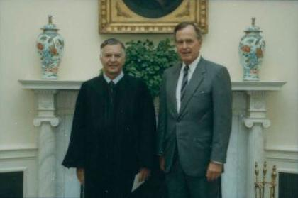 PRESIDENT BUSH PARTICIPATES IN THE SWEARING-IN CEREMONY FOR STEPHEN D. POTTS AS DIRECTOR, OFFICE OF GOVERNMENT ETHICS. JUDGE STANLEY HARRIS PERFORMS THE CEREMONY.